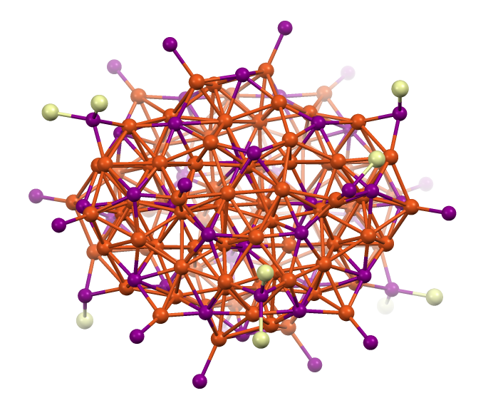 Cu96P30{P(SiMe3)2}6(PEt3)18, omitting C and H atoms